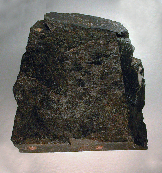 Allanite (Size: 3.8 x 3.8 x 1.0 cm) Locality: Pacoima Canyon pegmatite, Pacoima Canyon, San Gabriel Mountains, Los Angeles County, California, USA. Original description: Allanite, large, sharp, tabular crystal, 3.8 x 3.8 x 1.0 cm.. The label that came with this specimen (The Bradleys, Los Angeles) dates the piece to pre-1959. Ex-Mullane Coll. (Ore.), purchased from Rob Lavinsky.